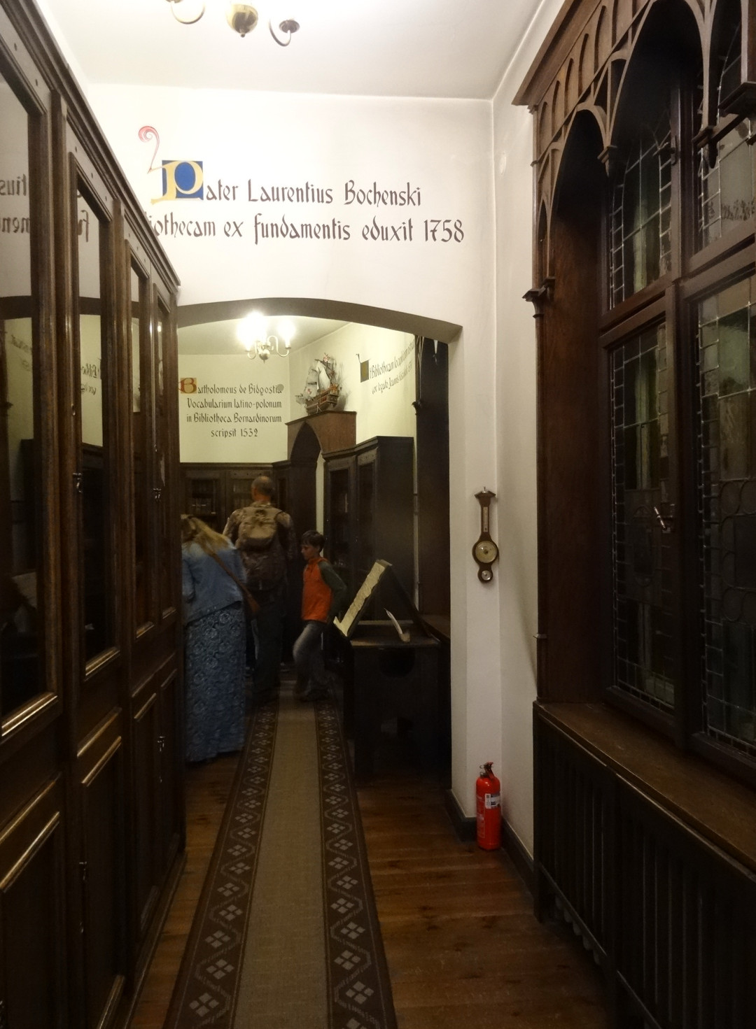 Library of Bydgoszcz Bernardine (XV-18th c.) In the area of the Provincial and Municipal Public Library in Bydgoszcz